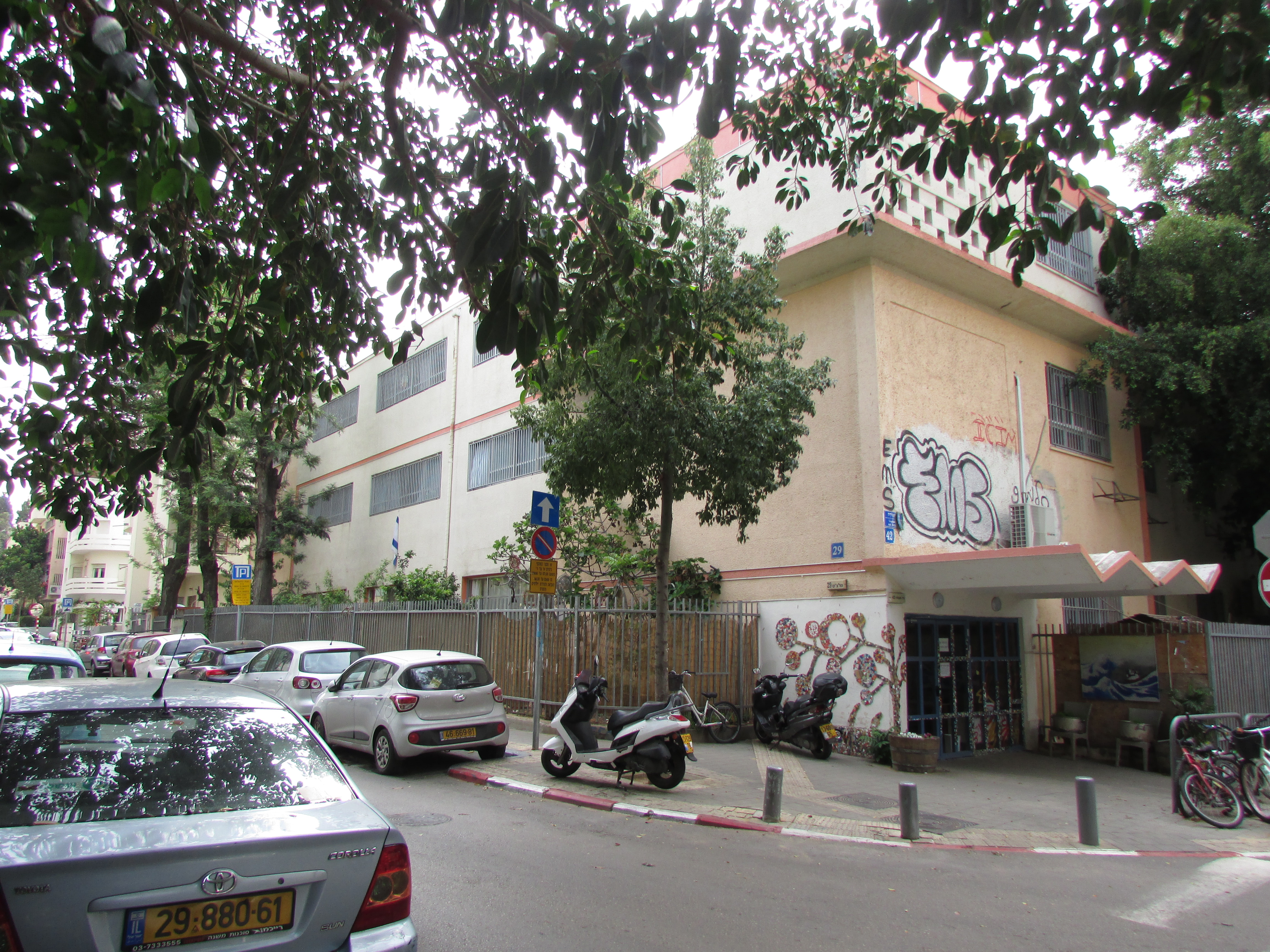 Talpiot school building from the 1930s to the 1970s. Melchet 29, Tel Aviv